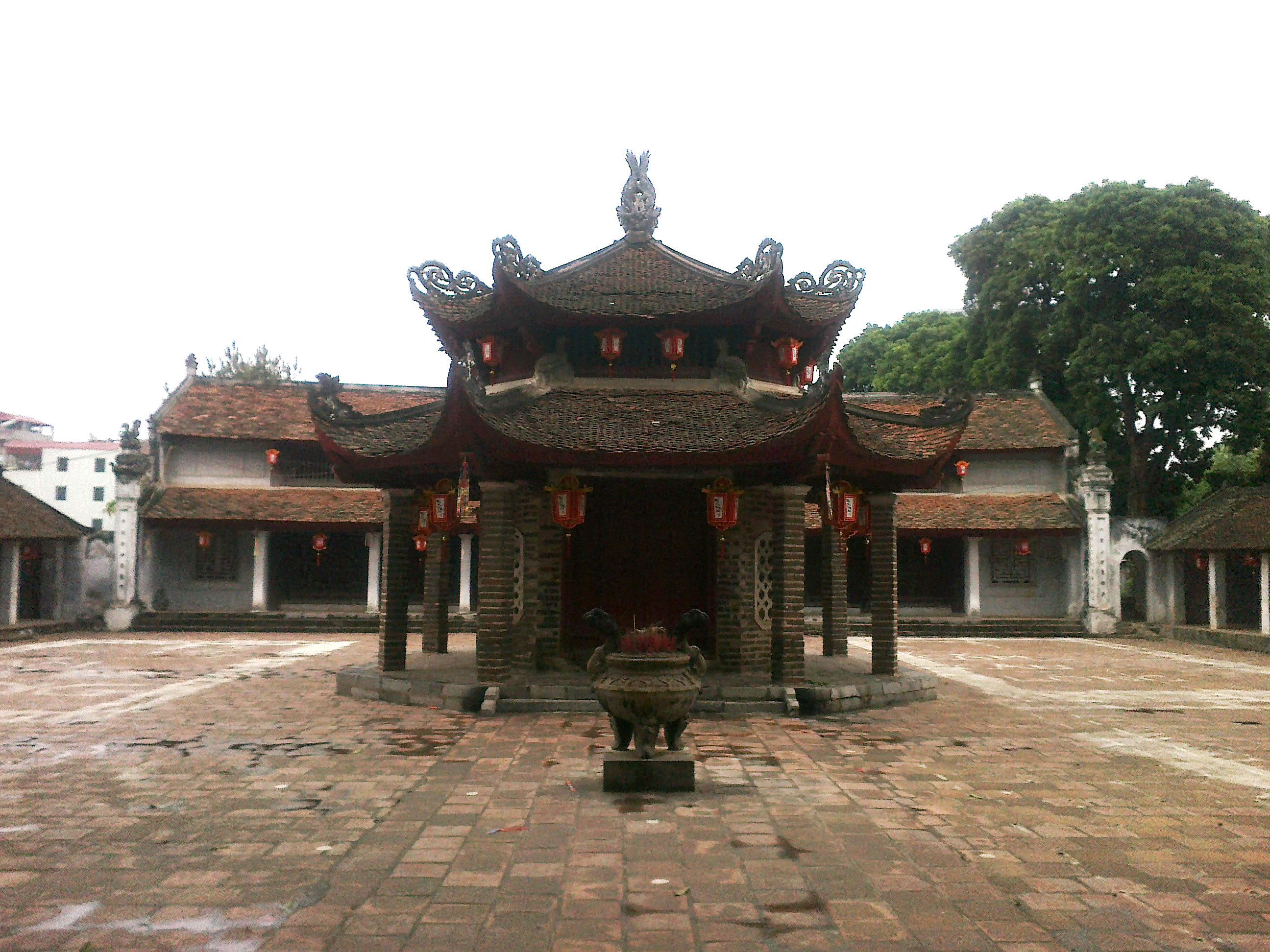 Octagon house in Láng Pagoda, Hà Nội, Việt Nam